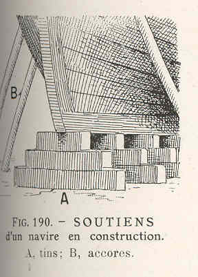 a, tins; b, accores Subject: Shipbuilding, Ships--Design and construction Tag: Vessels